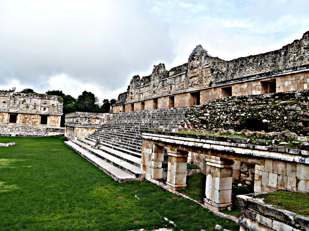 Uxmal, Nunnery Quadrangle